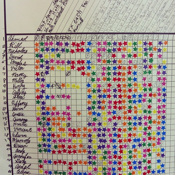 Using gamification to motivate.